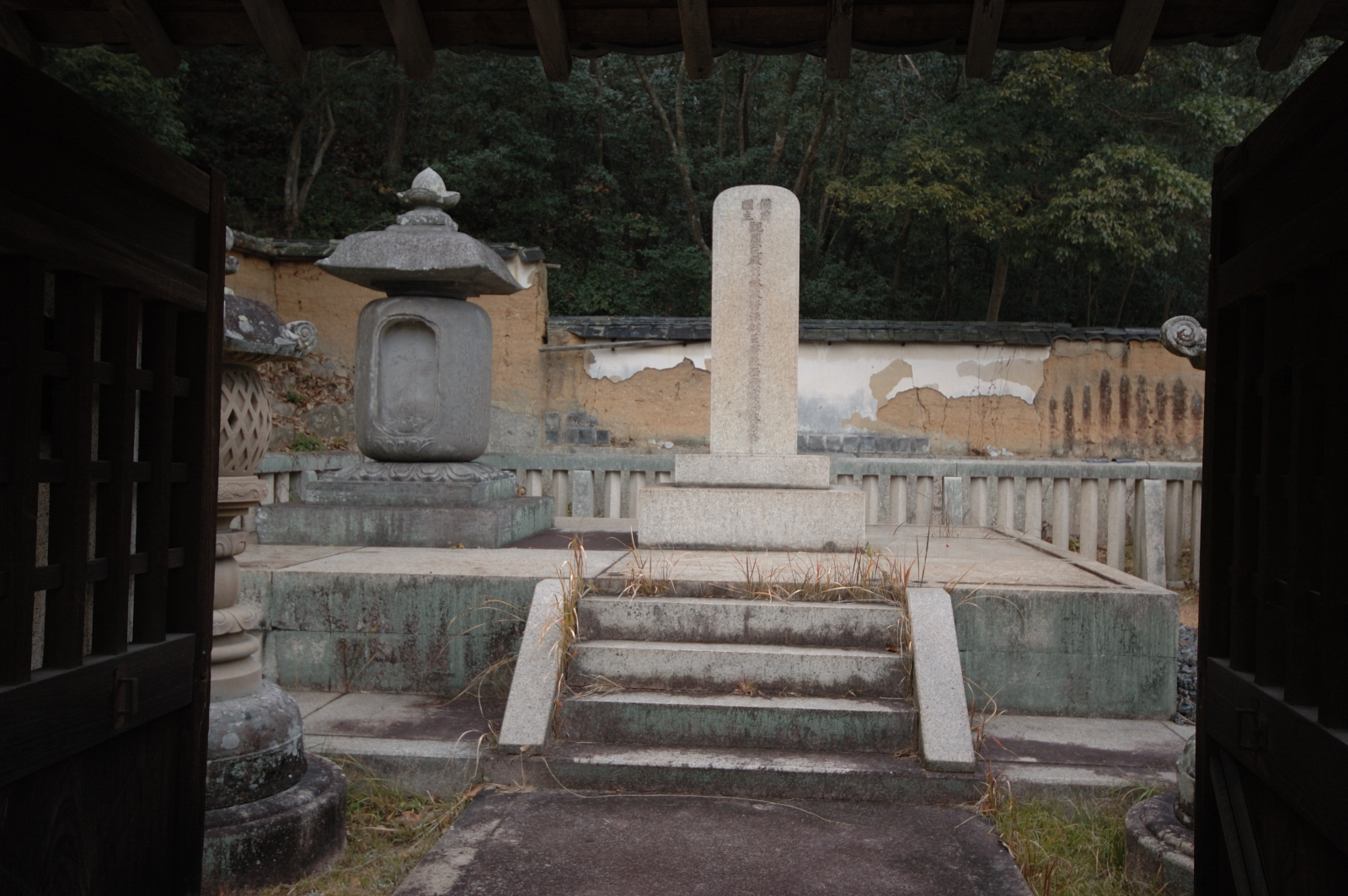 graves of the sixth Okayama feudal lord Ikeda Narimasa(right side) and his wife